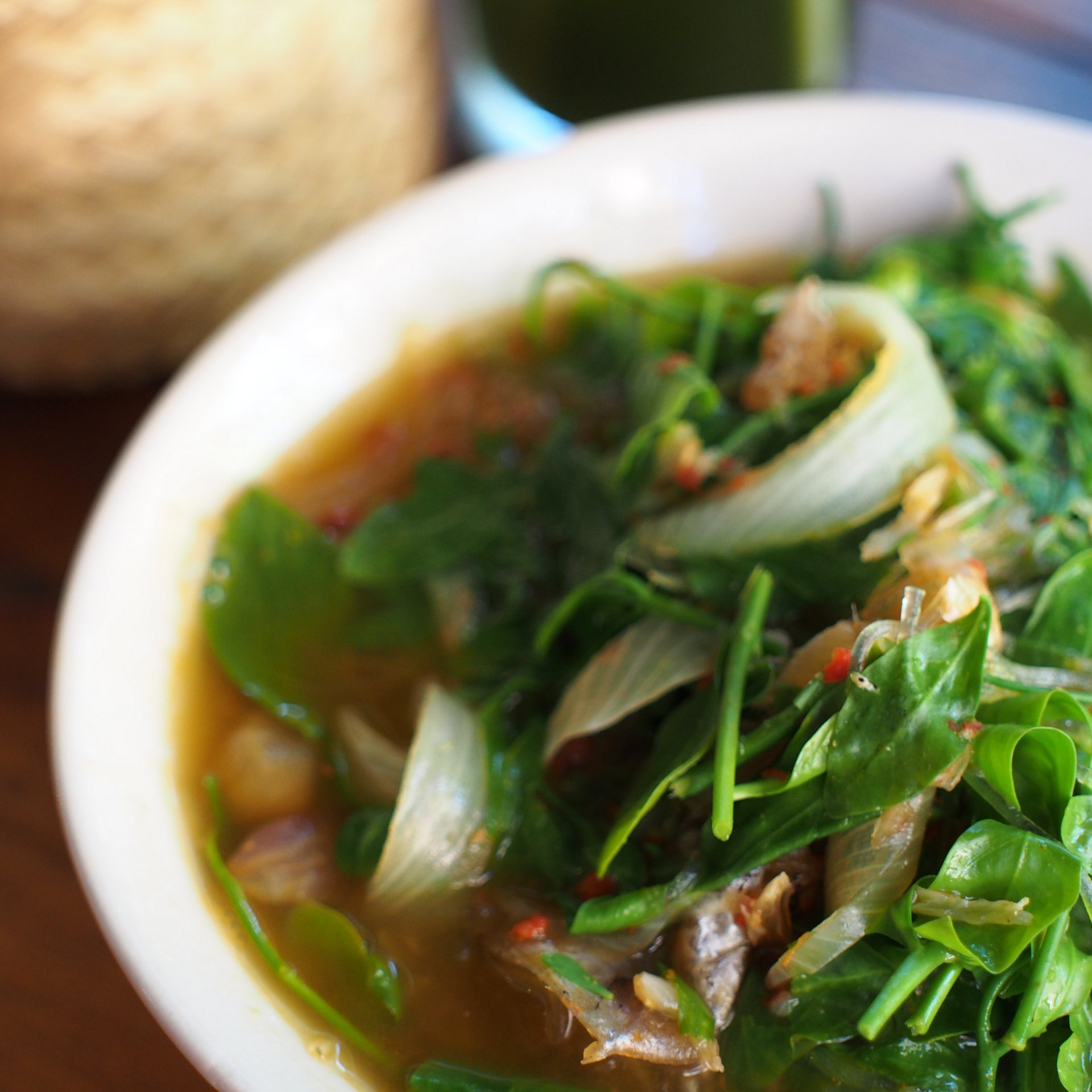 Kaeng phak wan pa (Thai script: แกงผักหวานป่า) is a Northern Thai curry made with the leaves of the woody plant Melientha suavis Pierre and dried fish.